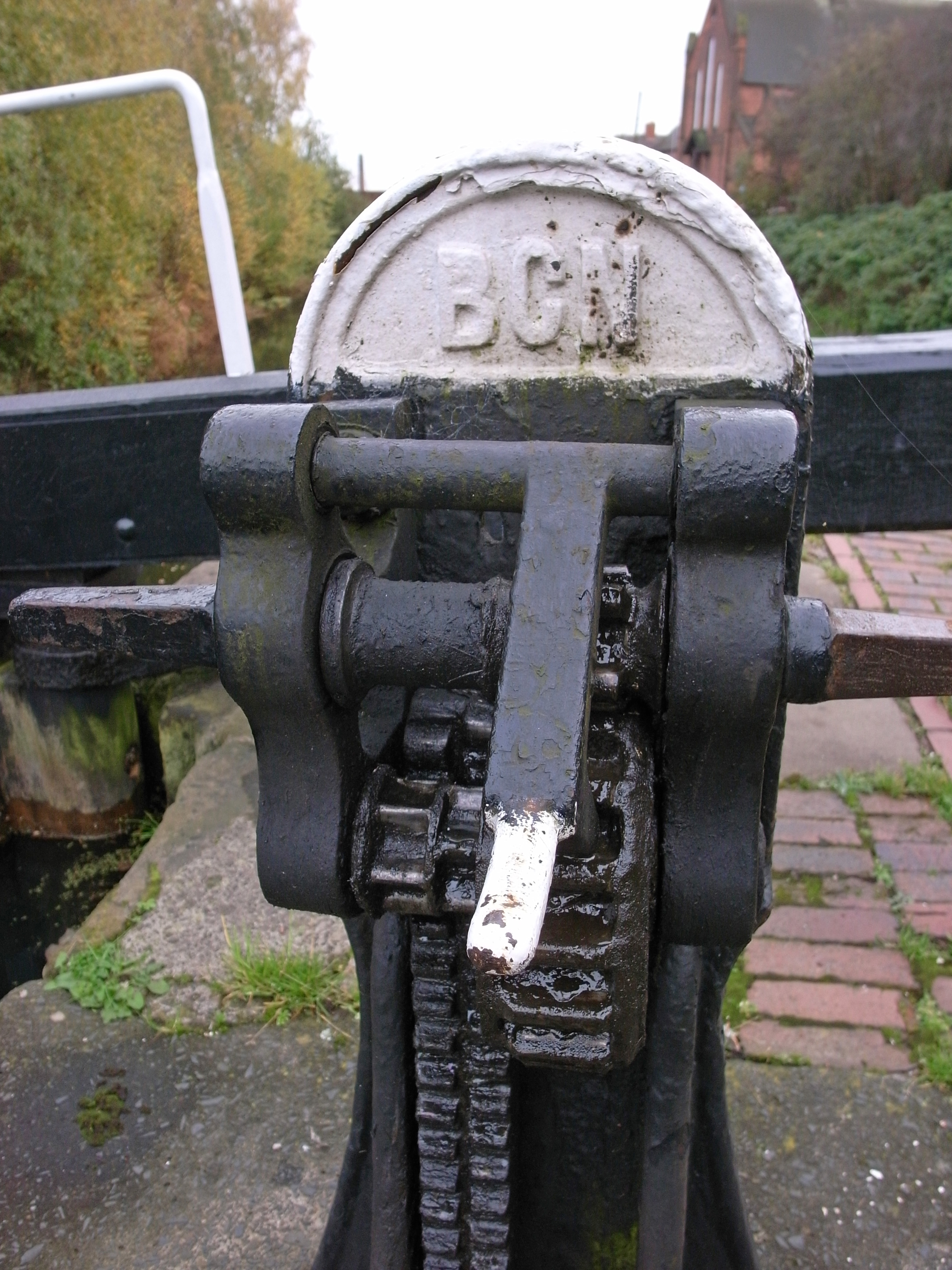 BCN paddle gear at Walsall Lock No. 4 on the Walsall Canal (part of the Birmingham Canal Navigations in Walsall, West Midlands (county), England.